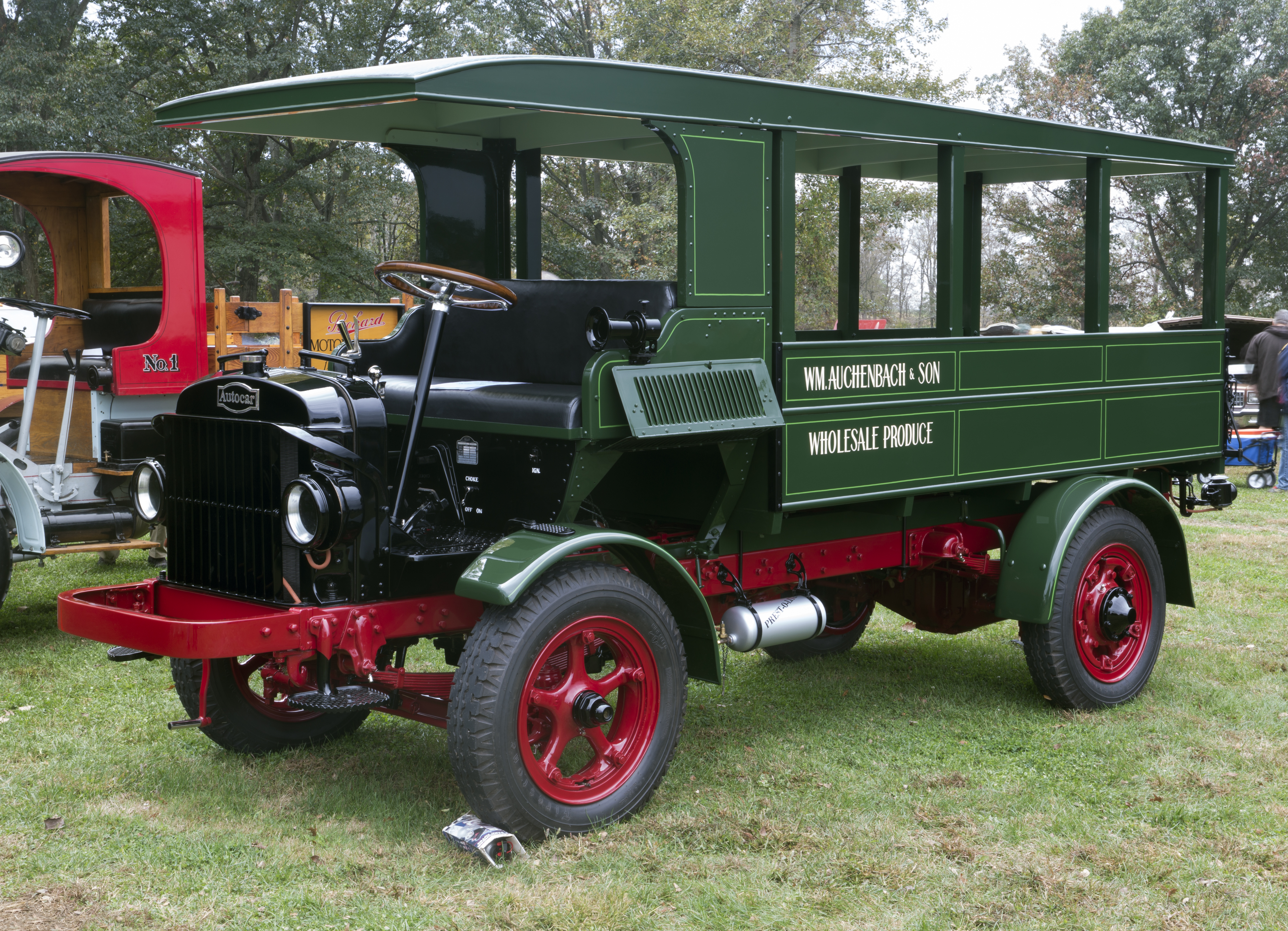 A 1920's Autocar Delivery Truck (under-seat engined, balloon tires) in the show area at Hershey 2019. WM. Auchenbach was a grocer in Pottstown, PA, who also lent his name to an Autocar advertisement in 1922.